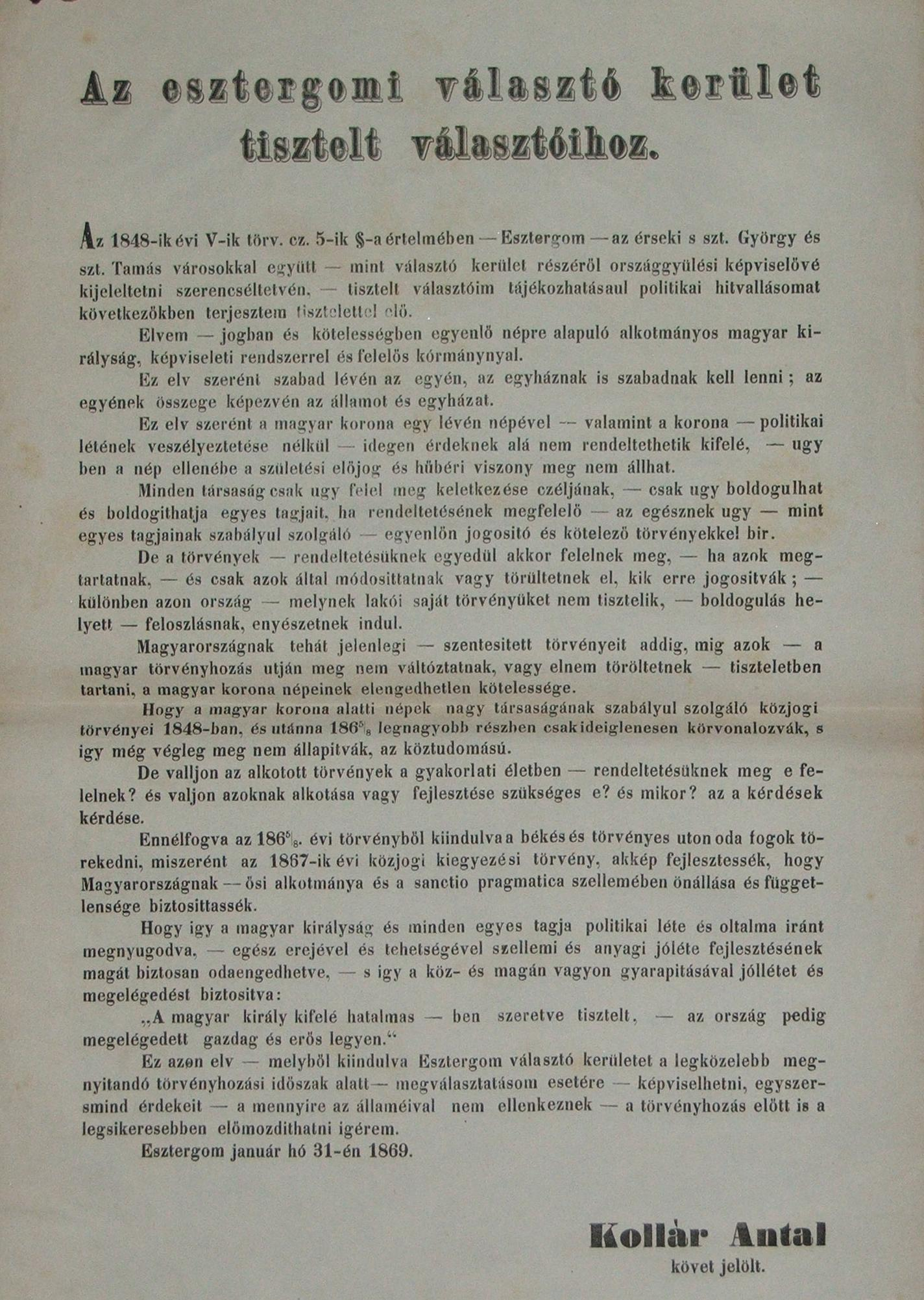 My photo of the original poster from 1869. The poster is also my property